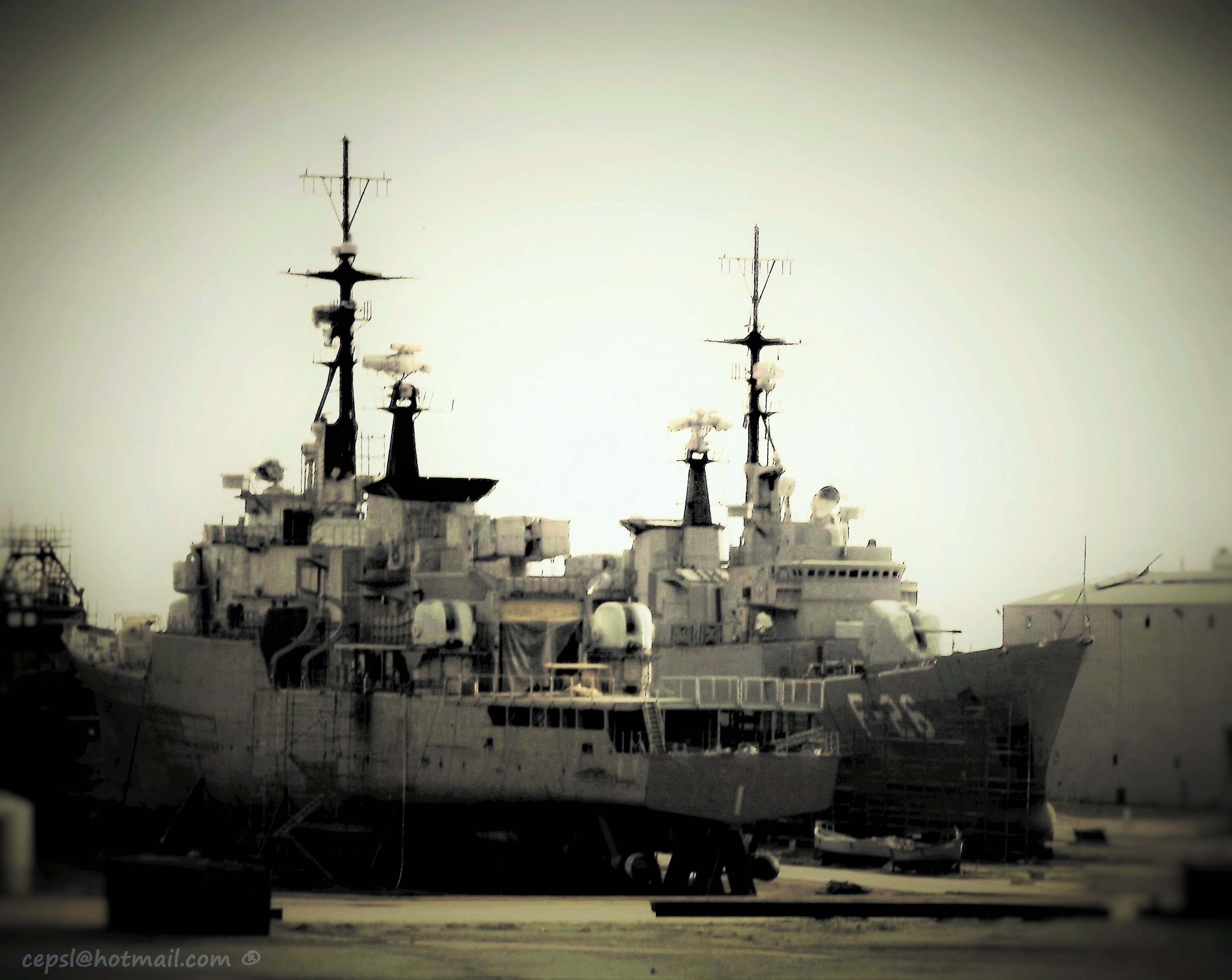 Missile frigates type Lupo / Class Mariscal Sucre, General Salom (F-25) and Admiral Garcia (F-26) in dry dock for major maintenance.